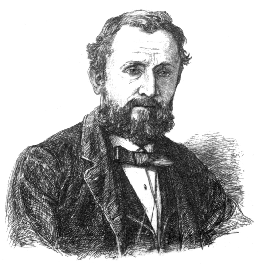 An image of James Thomson (B.V.), obtained from a scan of A Voice from the Nile, and Other Poems.